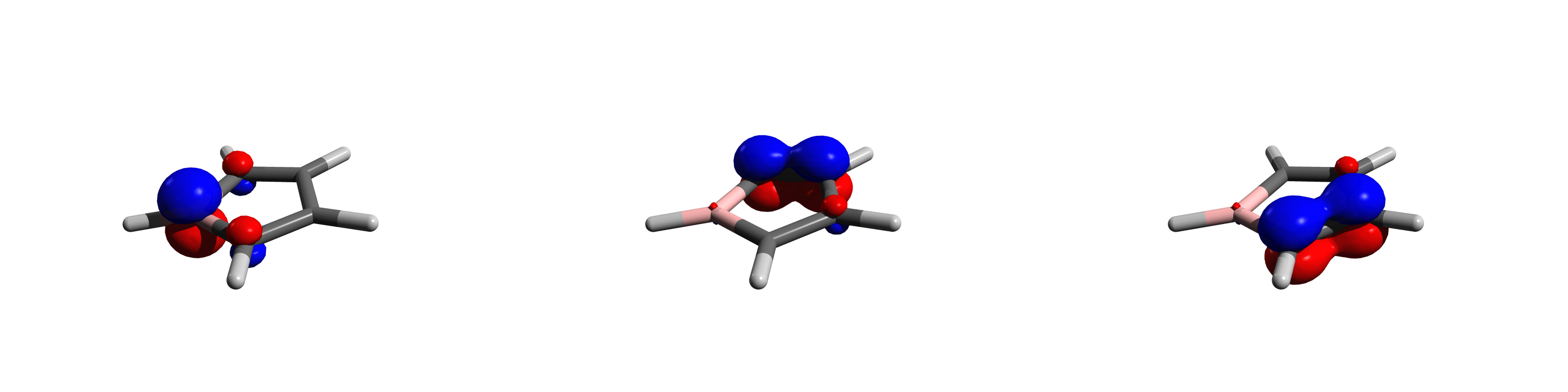 NBO of borole